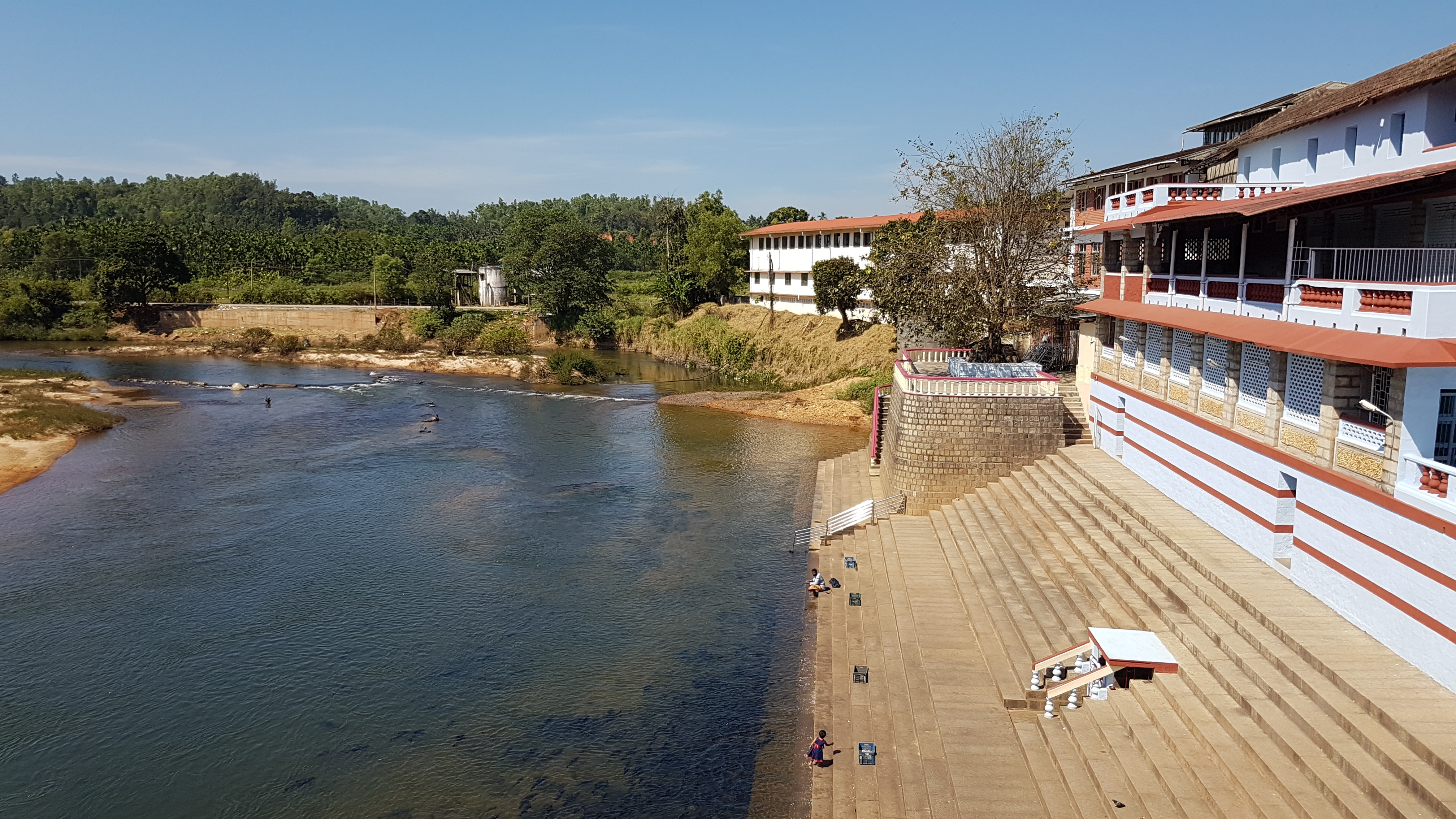 Photo of Tunga river and steps near Sri Vidyashankar temple in Sringeri, India, 2019; lone girl and fishes can be seen.